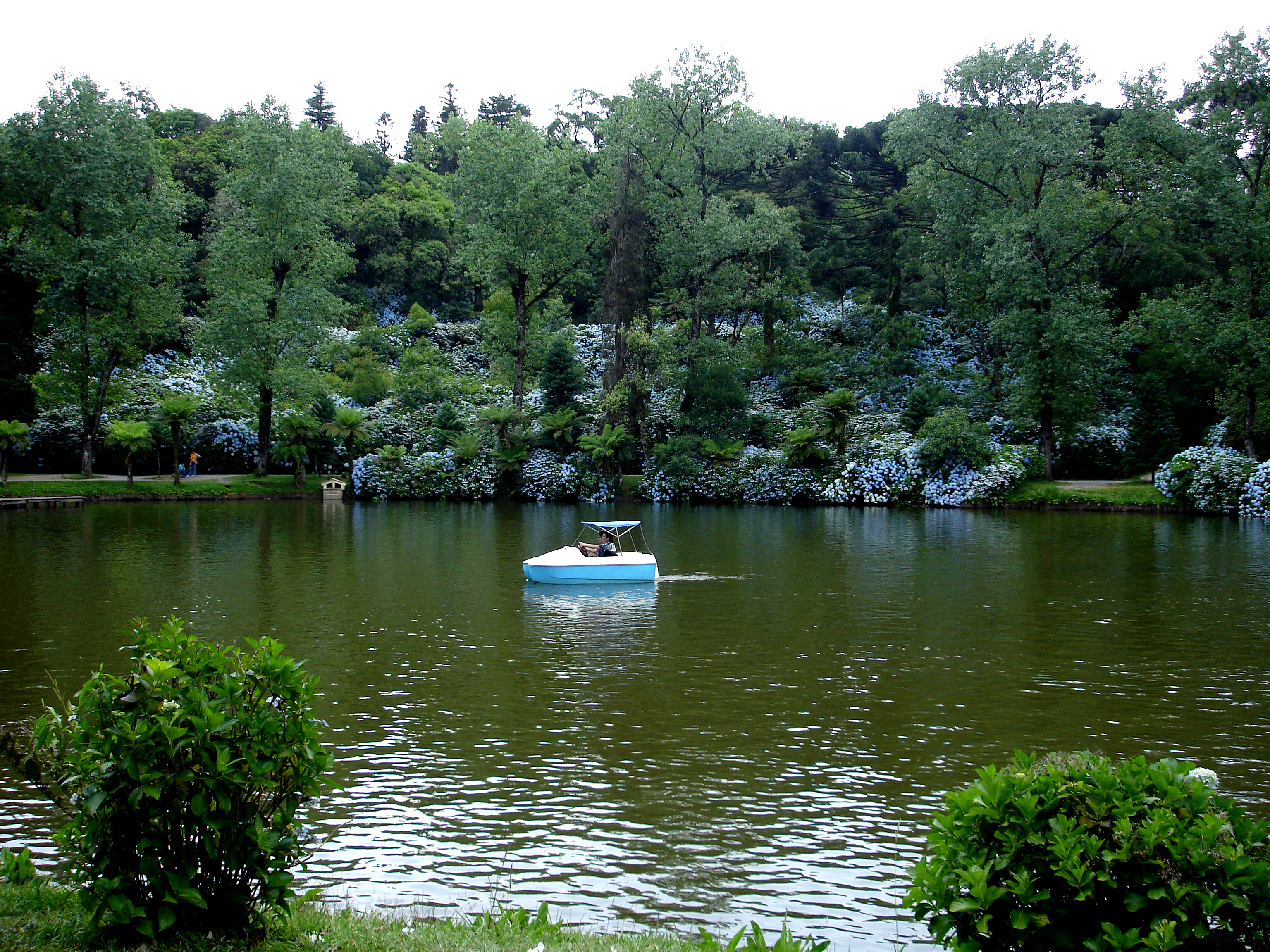 I took this picture in 29/12/05.